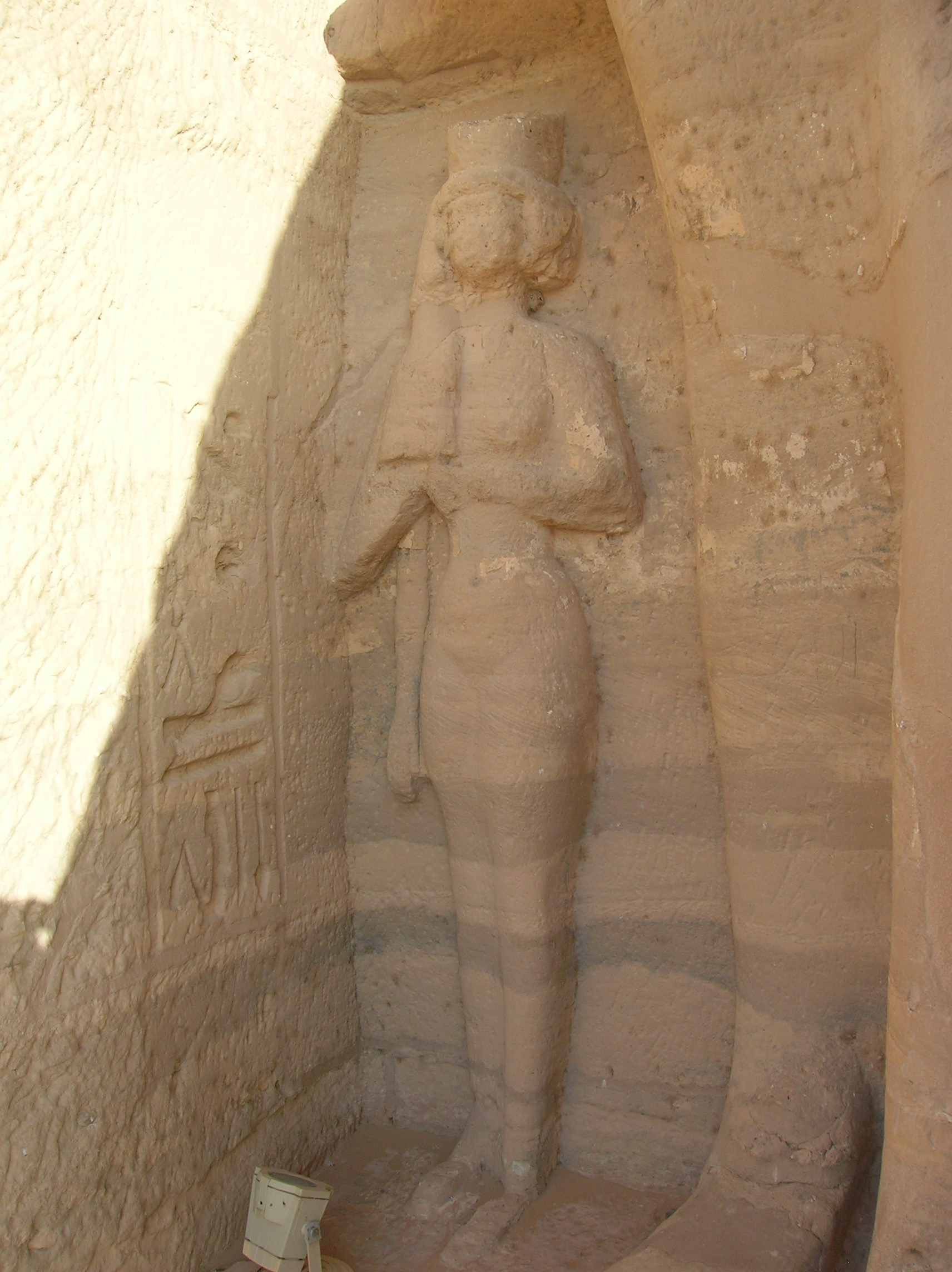 Statue of Princess Henuttawy, daughter of Ramesses II and Nefertari in the smaller Abu Simbel temple